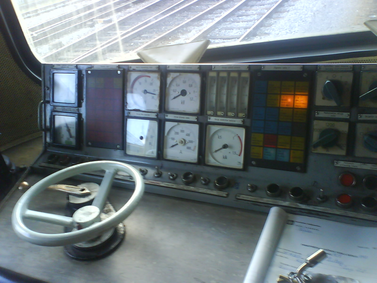 Inside of a HŽ 1141 series locomotive